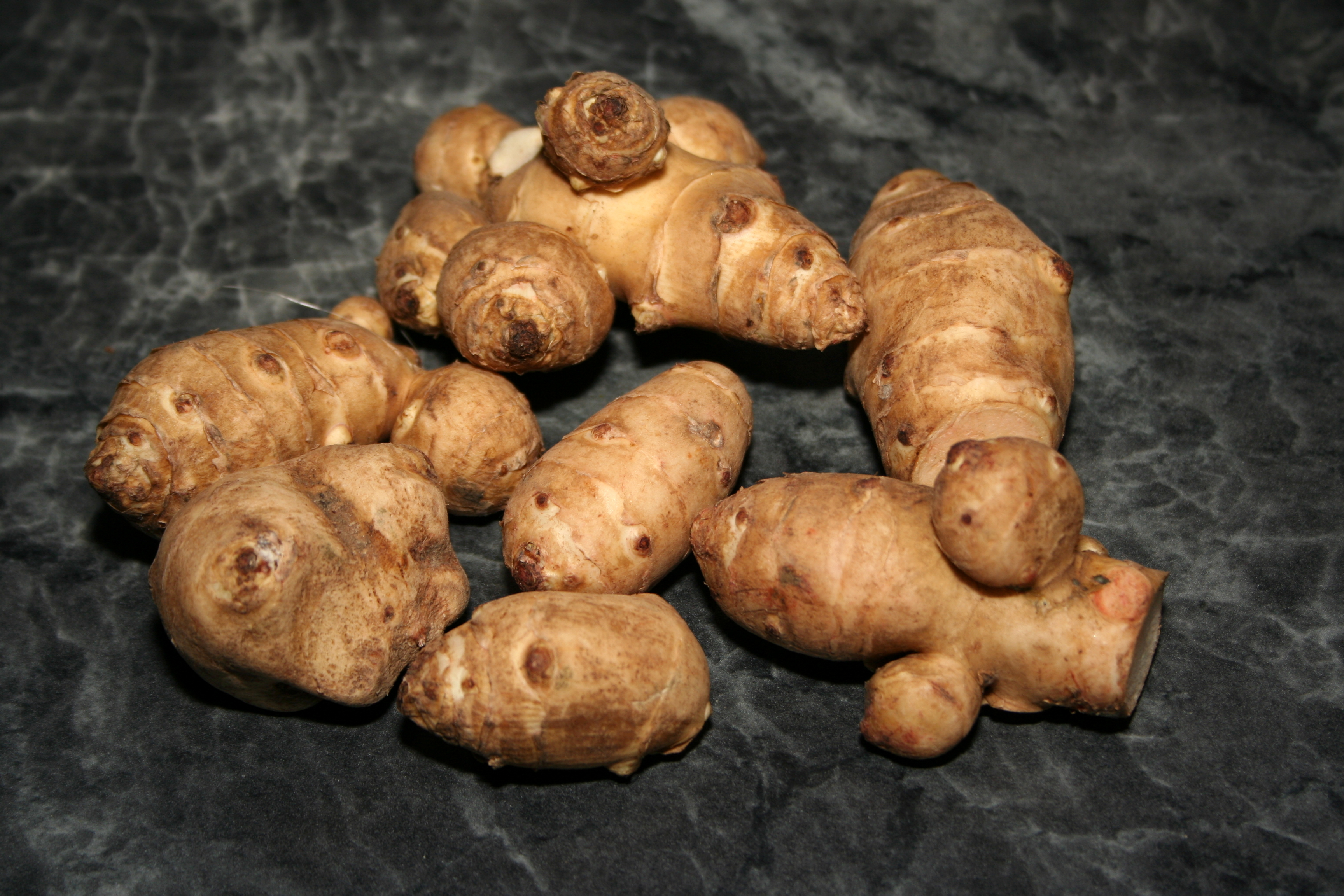 Several unprocessed rhizomes of Helianthus tuberosus (Jerusalem artichoke)